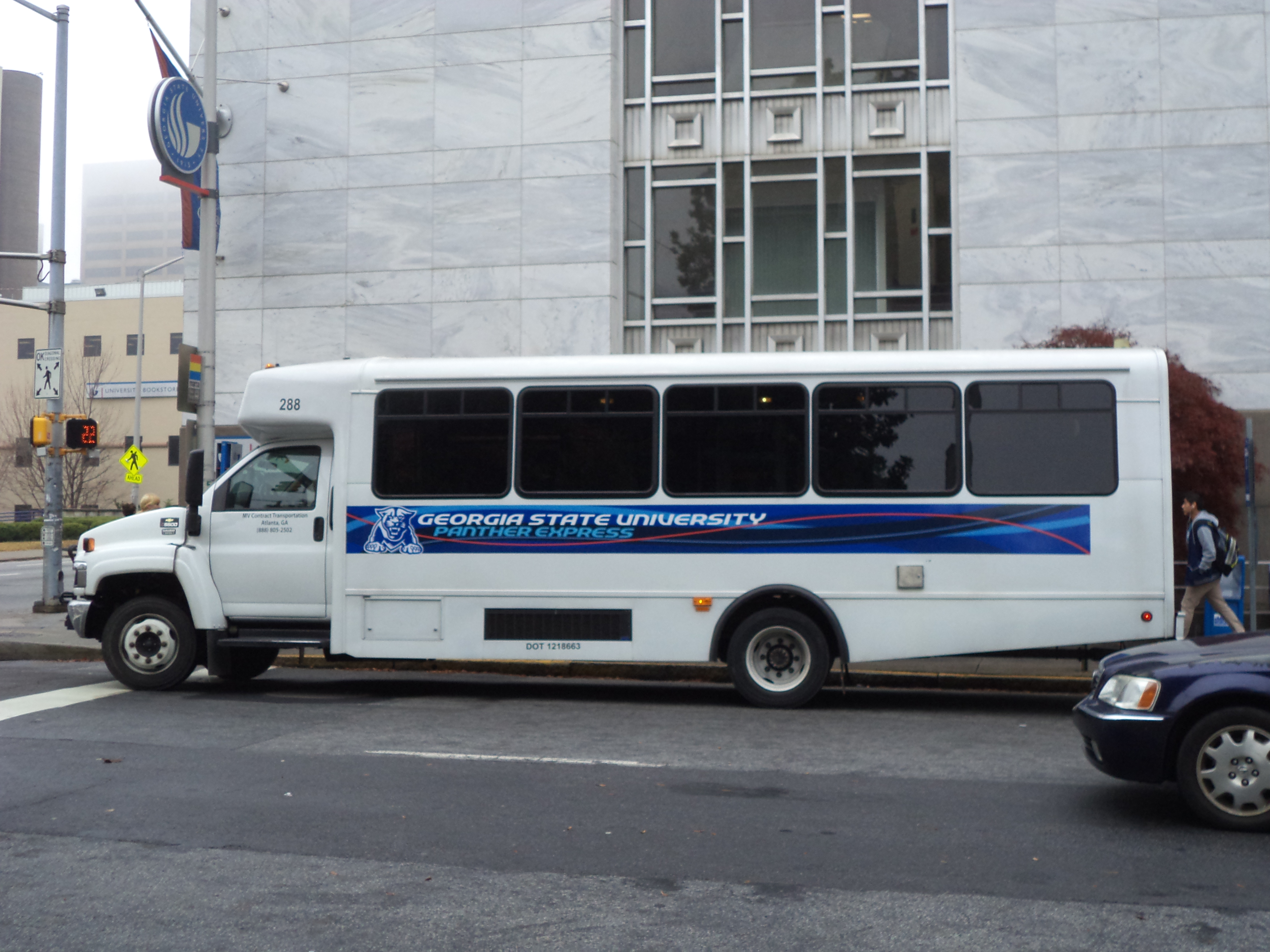 Georgia State University, Atlanta, Fulton County, Georgia